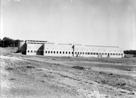 Australian War Memorial image XS0055. The Australian War Memorial building in Canberra under construction in 1937.